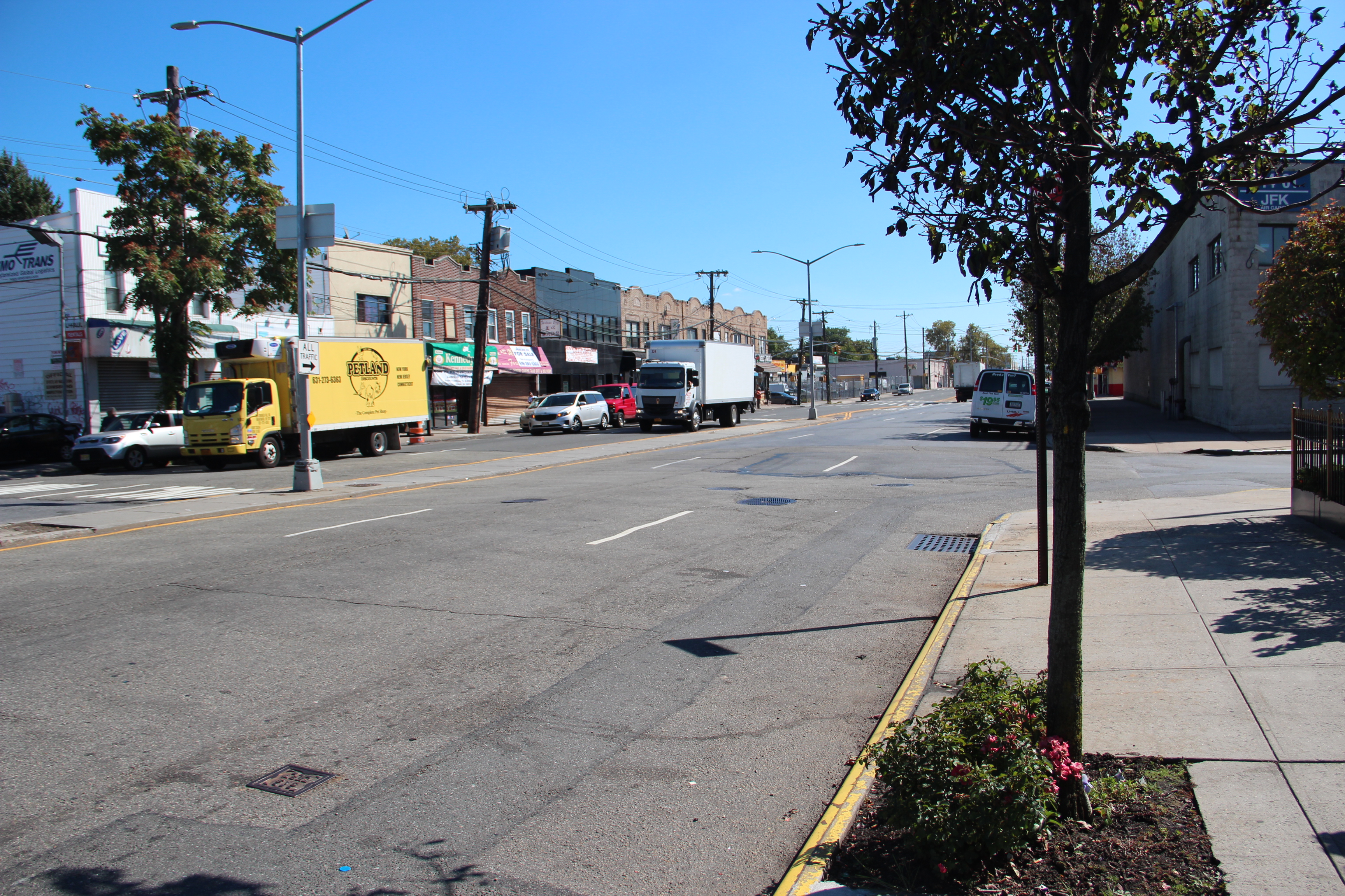 Rockaway Boulevard @ 175th Street, Queens